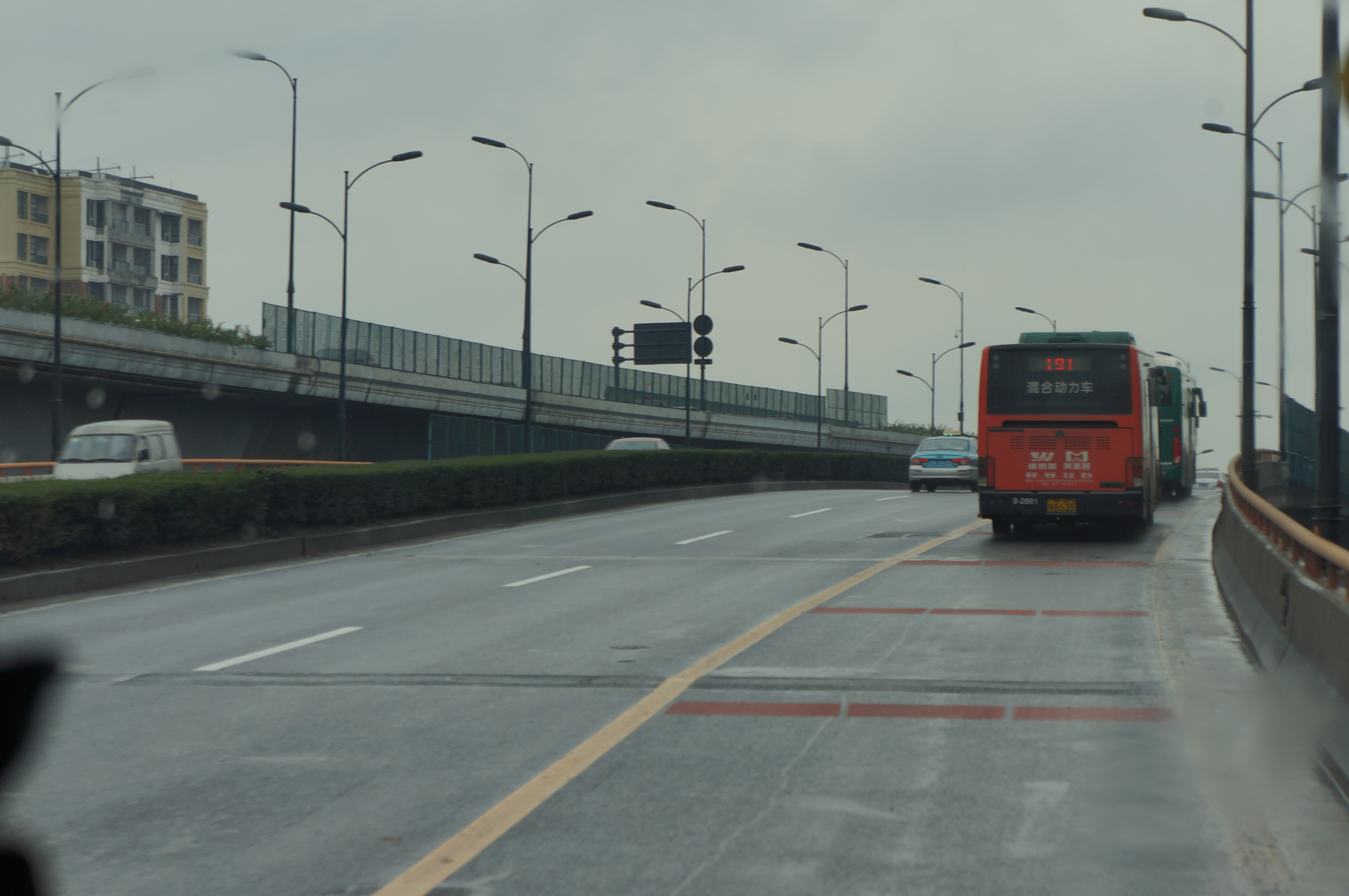 201611 Desheng Road Bridge over Jianqiao–Hangzhou Railway